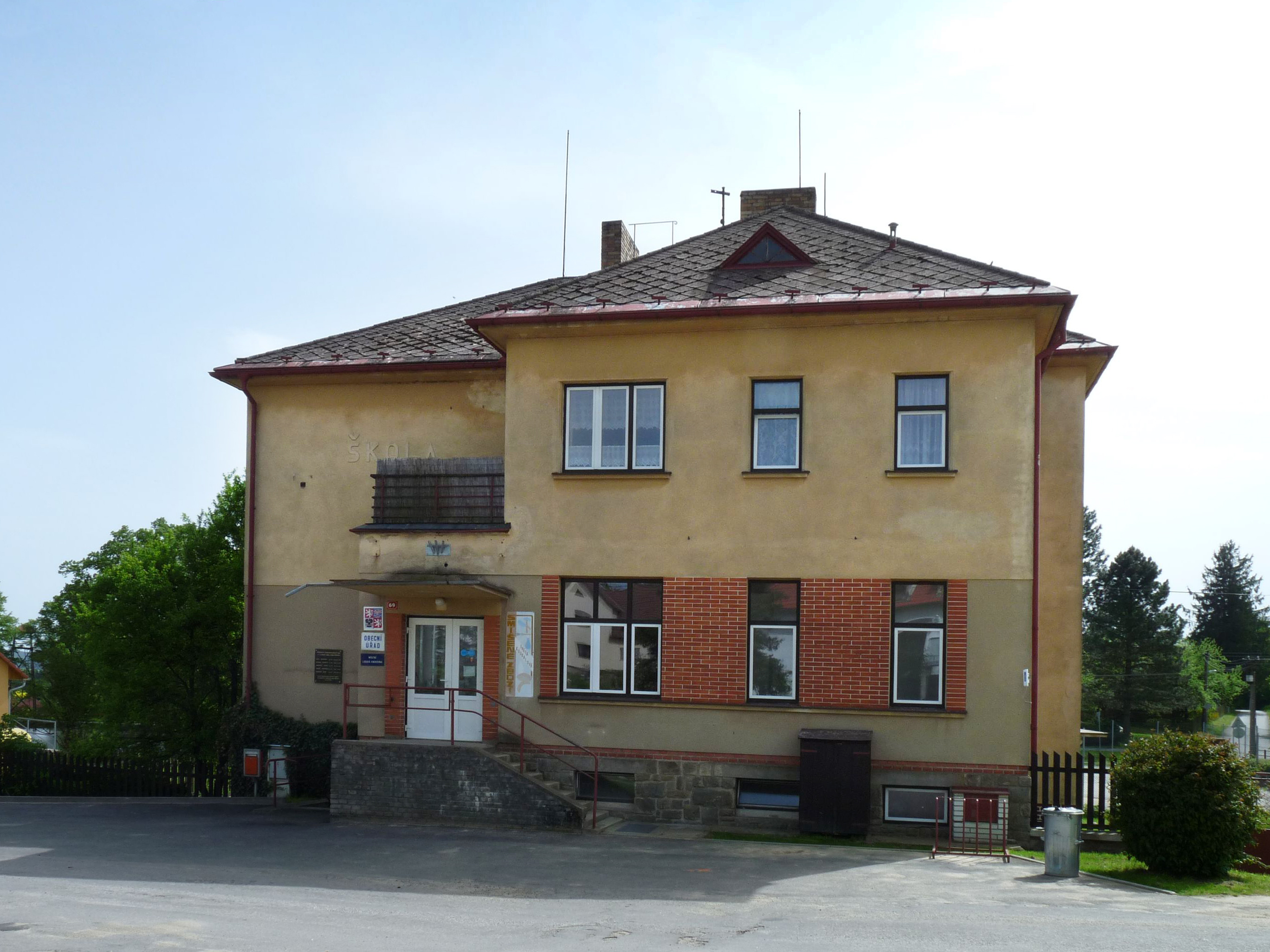 Municipal office building in the village of Bořetín Pelhřimov District, Vysočina Region, Czech Republic.